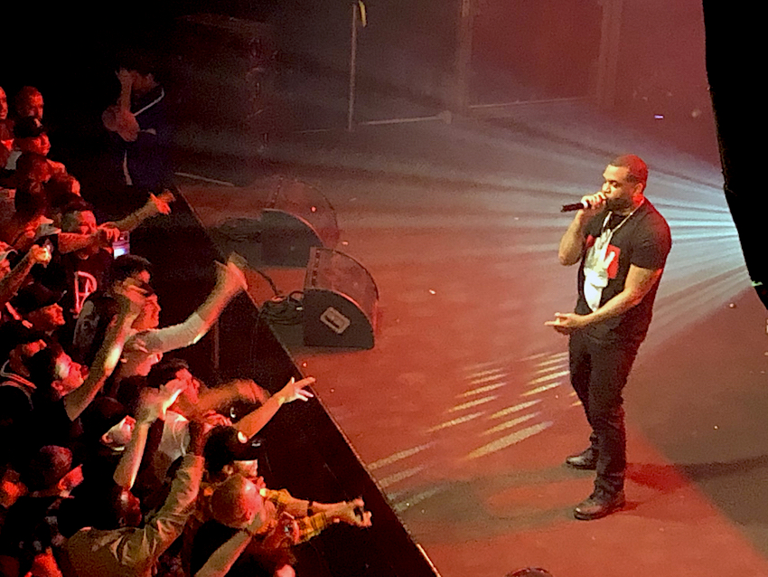 Rapper Lloyd Banks performing at a show in Australia in 2019.